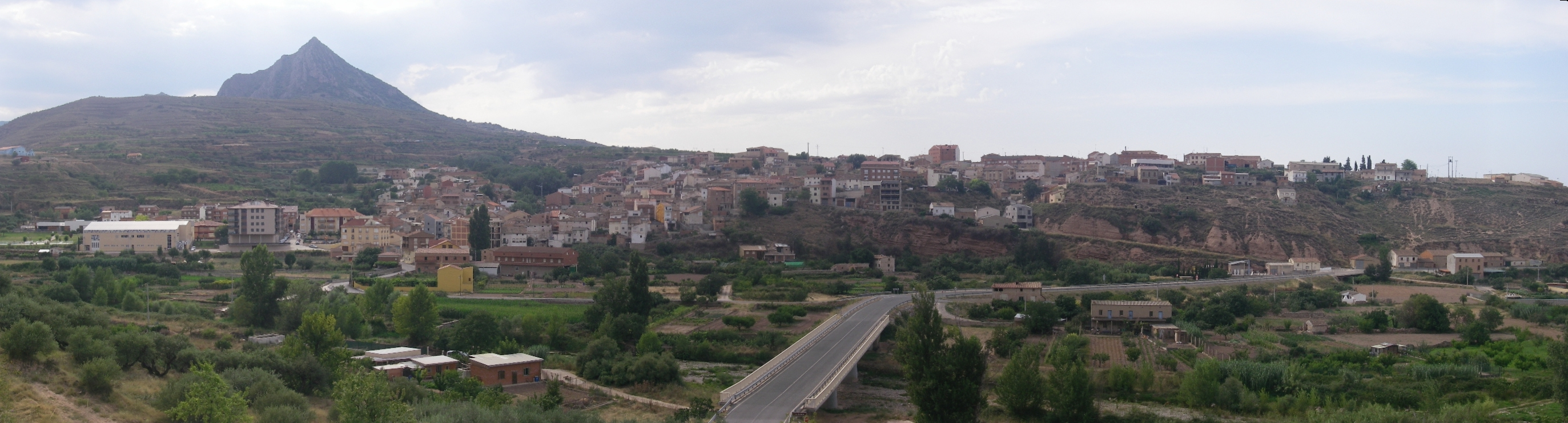 View of Ribafrecha (La Rioja, Spain)